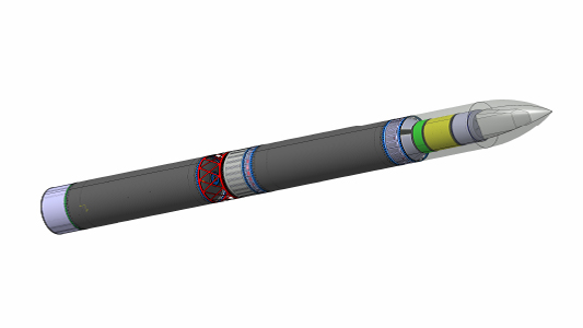 Veículo Lançador de Microssatélite (VLM) rocket shape